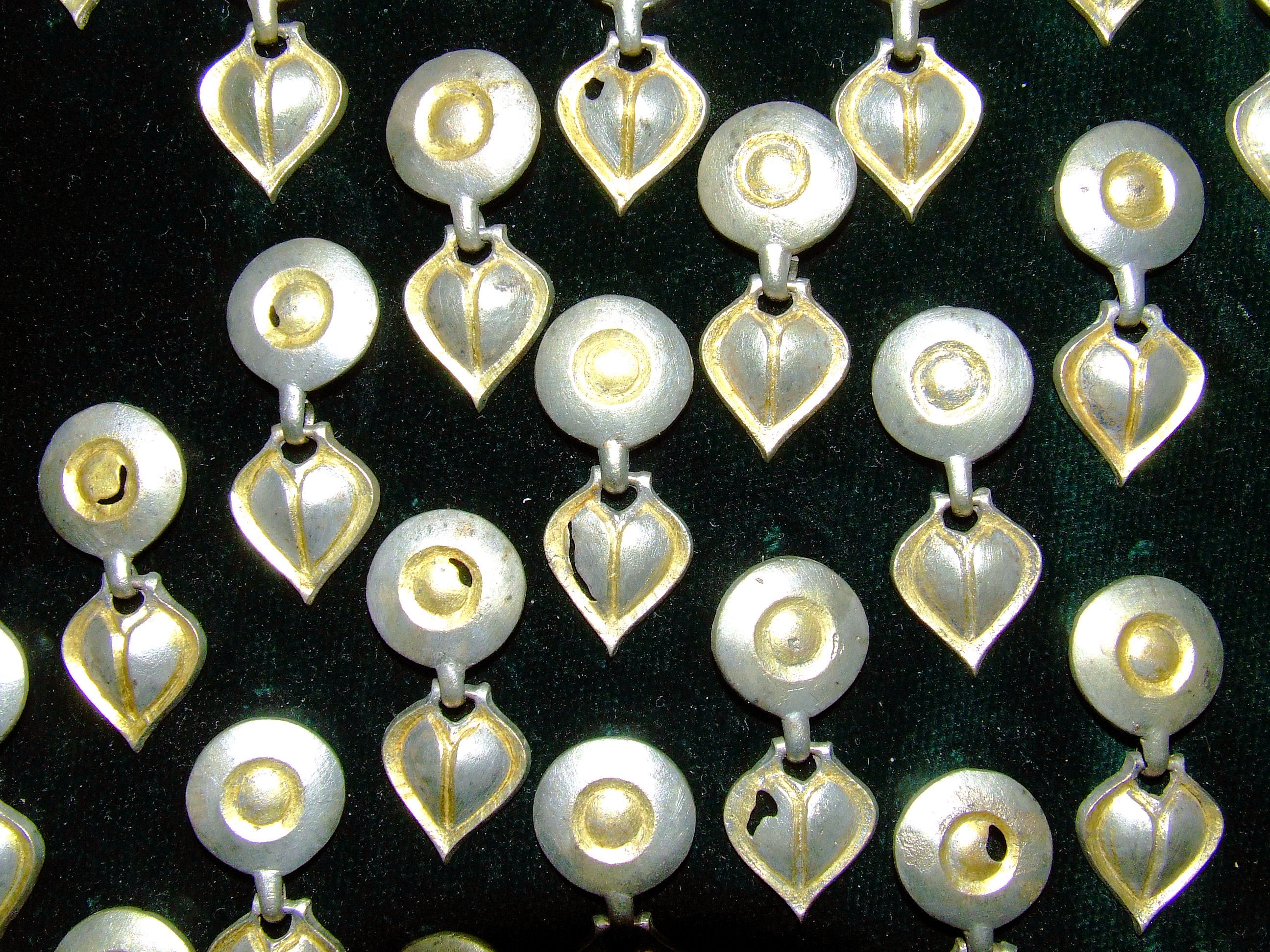 Artifacts from the richest grave find (the remains of a female was found in the grave) in the Carpathian Basin from the 10th century (Szeged-Bojárhalom)